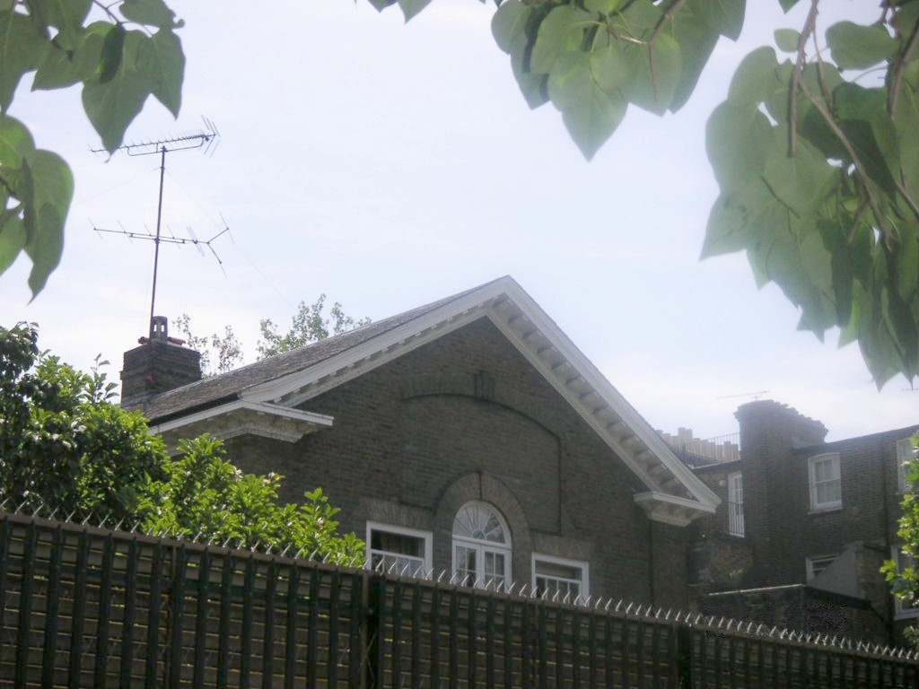 The former house of Freddie Mercury in Kensington